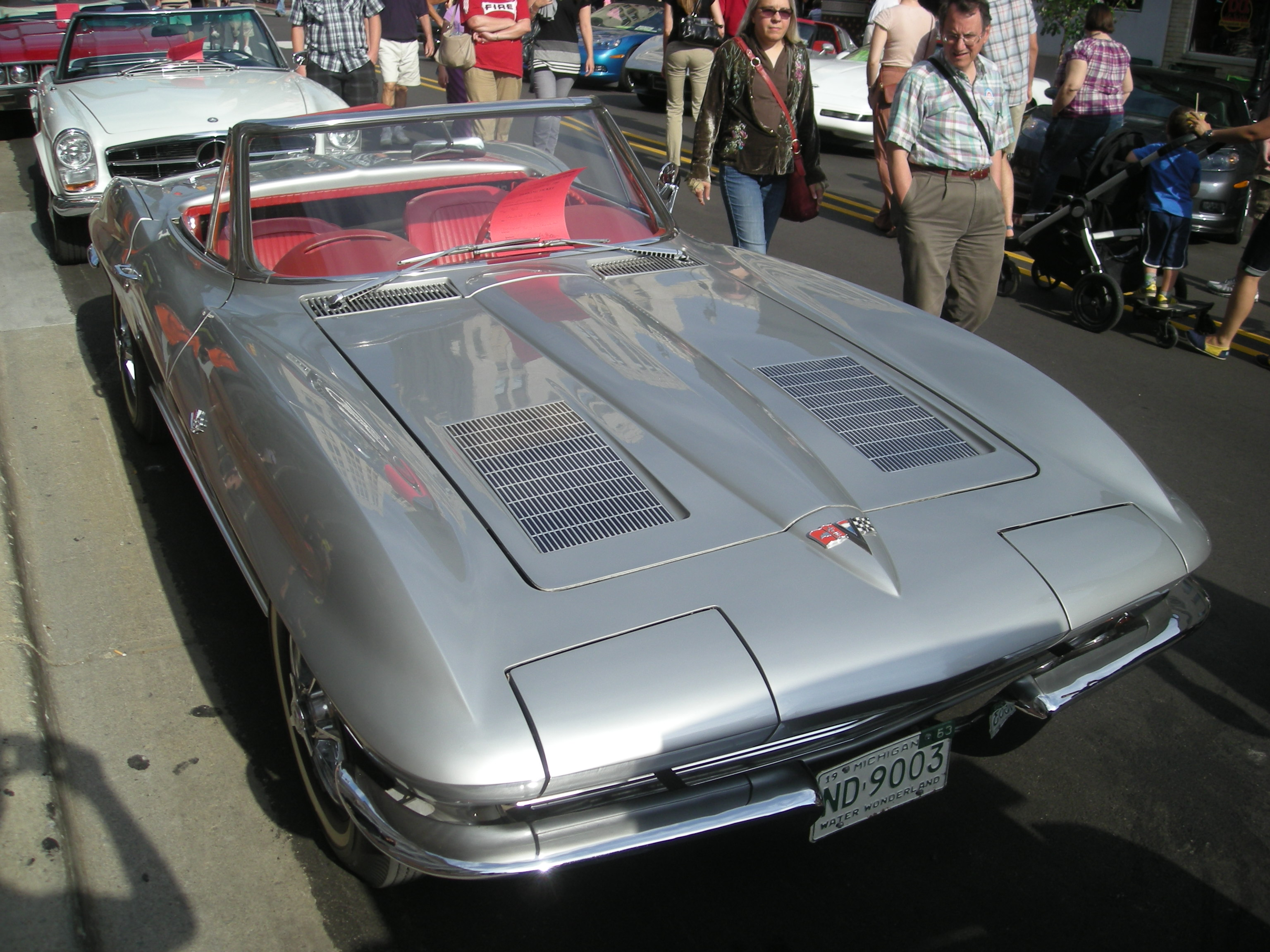 A 1963 Chevrolet Corvette at the 2014 Rolling Sculpture Car Show in Ann Arbor, Michigan (United States).